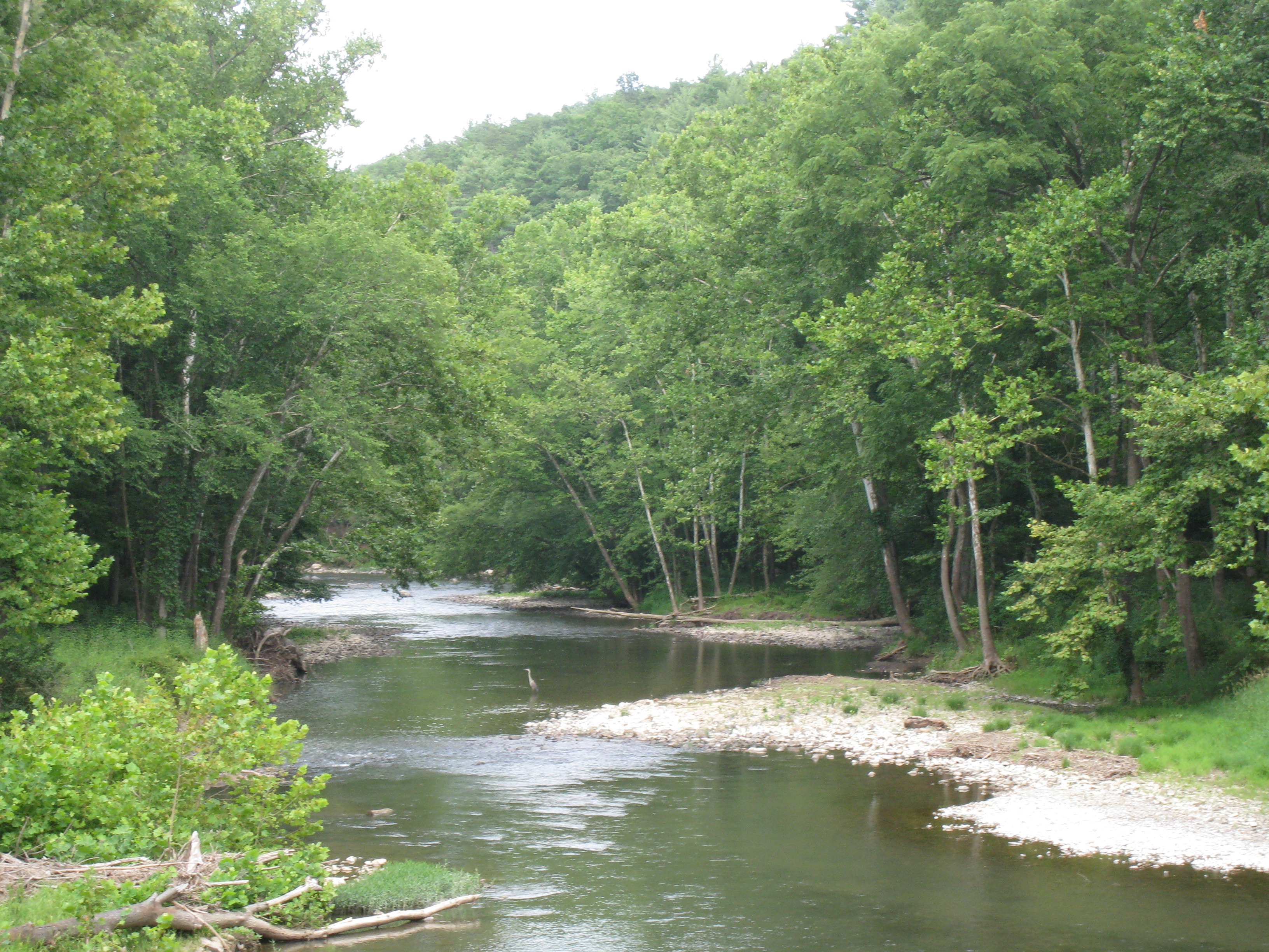 The Cacapon River at the Old Whipple Truss along West Virginia Route 259 in Capon Lake, West Virginia, United States.